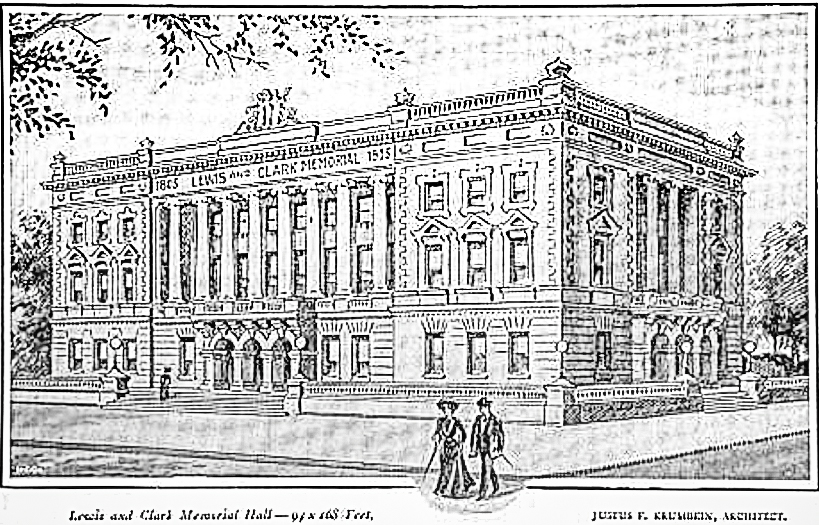 An engraving of the Lewis and Clark Memorial Hall, designed by architect Justus F. Krumbein, at the 1905 Lewis and Clark Centennial Exposition in Portland, Oregon.